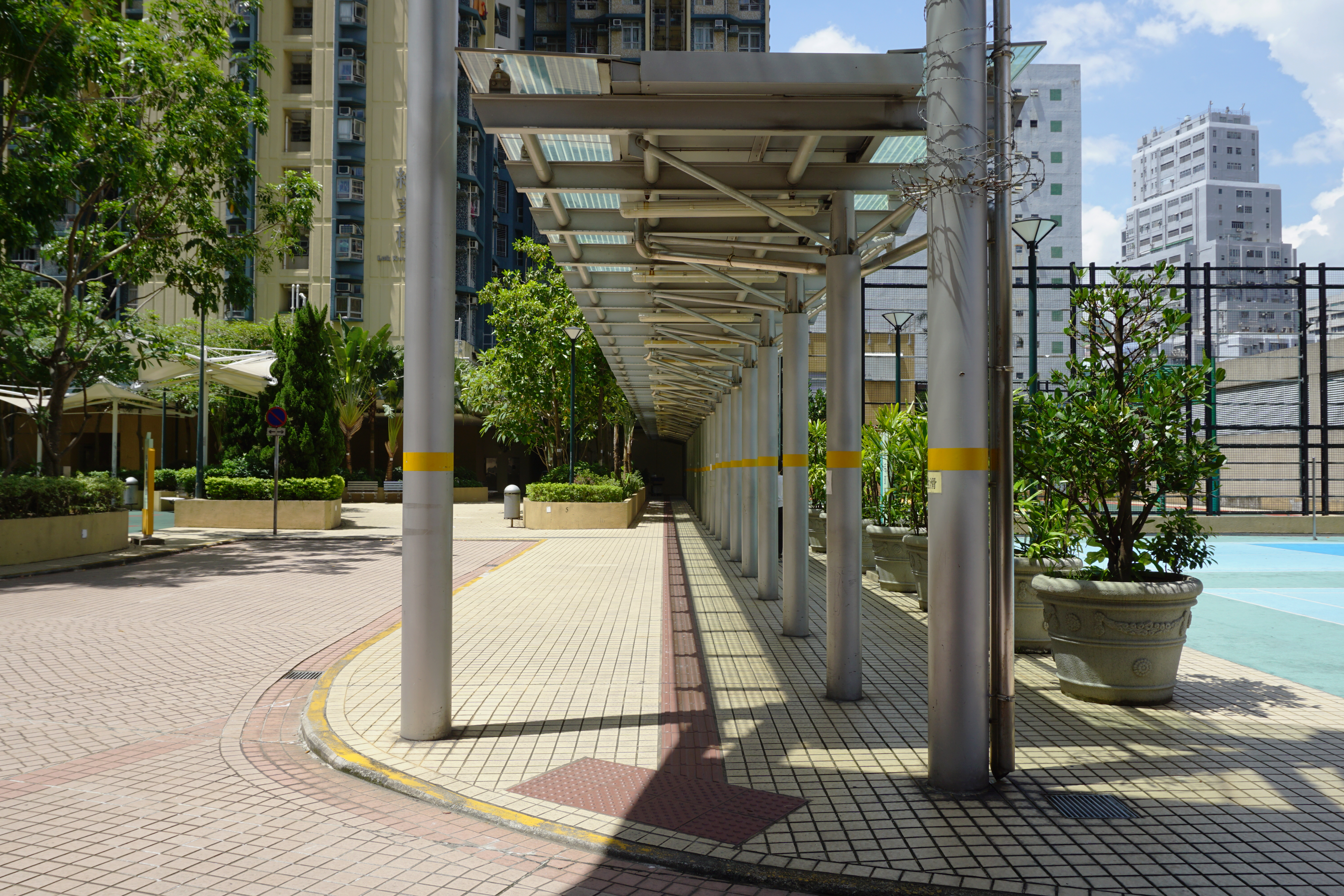 Kwai Chung Estate in Kwai Chung, Hong Kong.